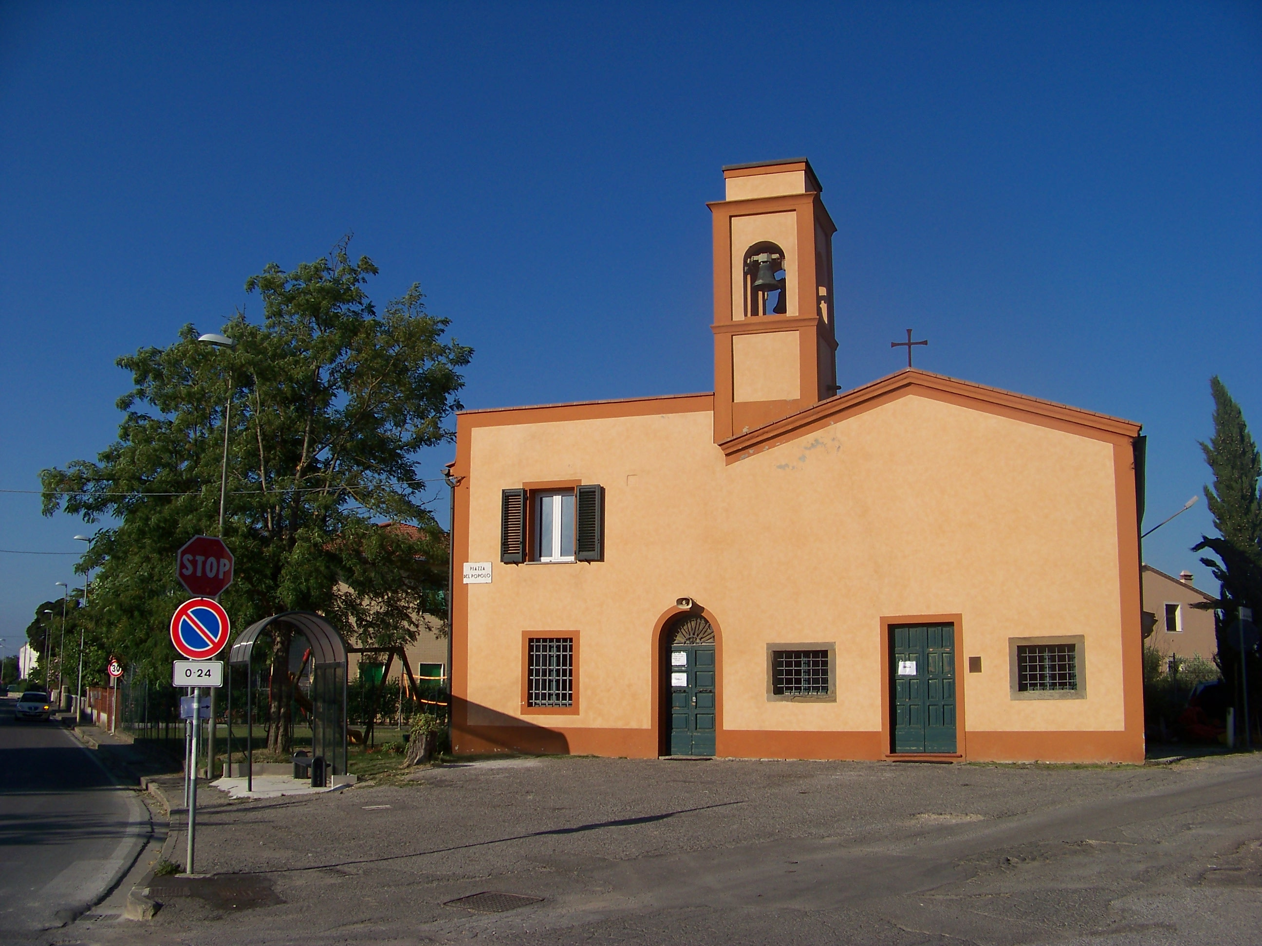 Church of "Santa Lucia di Pedisciano" - Pontedera (Pisa)